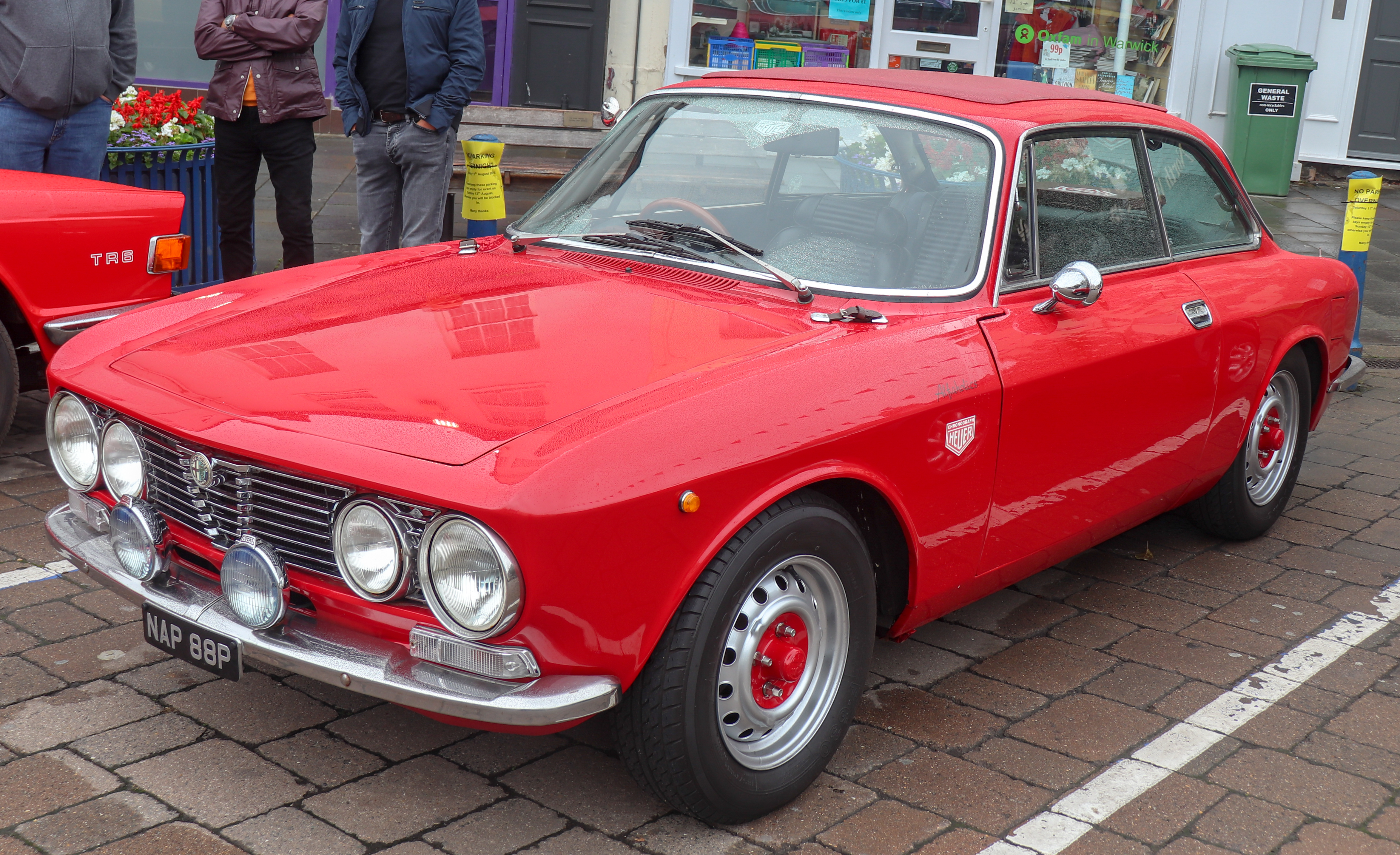 1976 Alfa Romeo GT 1600 Junior Front Taken at the 2018 Warwick Classic Car Show